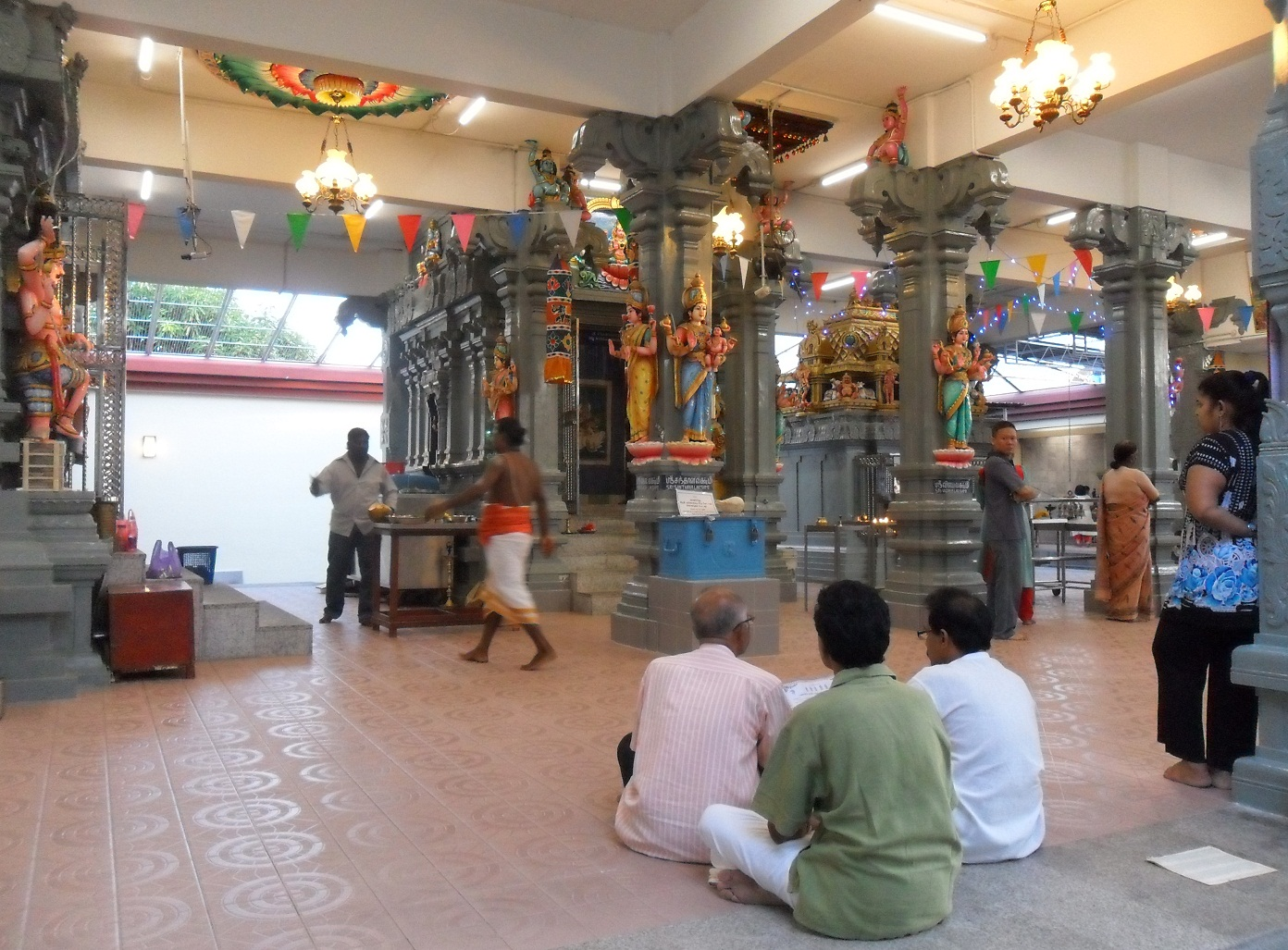 Inside Lord Shiva Mandir temple, Georgetown, Malaysia